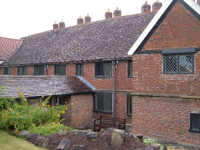 Gray's Almshouses, Taunton. 17th century. Seen from the rear garden, looking NW.